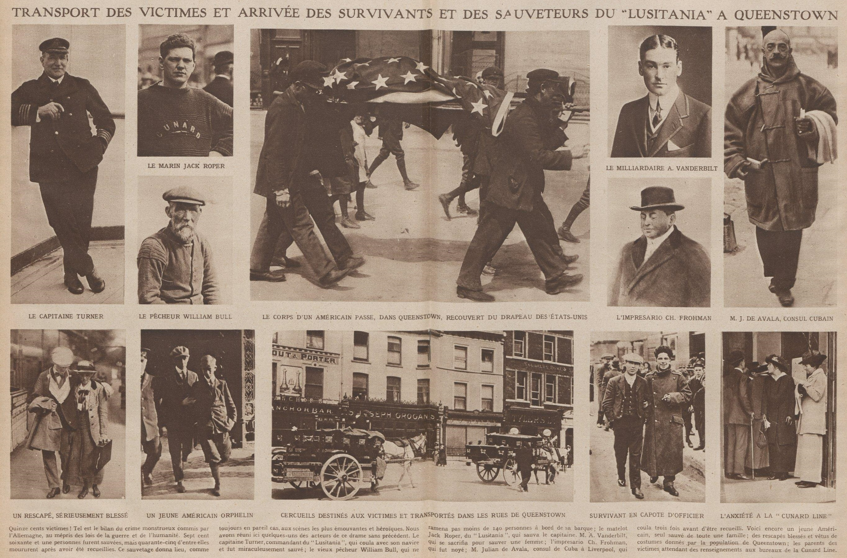 Various views of victims and survivors of the liner Lusitania in the streets of Queenstown in 1915 Published by the French weekly Le Miroir, May 23, 1915. Approximate translation of the text: 1,500 victims! This is the result of the monstrous crime committed by Germany, in defiance of the laws of war and humanity. 761 people were rescued, but 45 of them died after being rescued. (...) Here are some photographs of the actors in this drama. Captain Turner, commander of the Lusitania, which sank with the ship and were miraculously saved; the old fisherman William Bull, who brought 140 people in his boat; Seaman Jack Roper who saved the captain. Mr. Vanderbilt, who sacrificed himself to save a woman; impresario Ch. Froman, who drowned, Mr. Julian de Avala, Consul of Cuba in Liverpool, which sank three times before being drafted. Then here is a young American, the only survivor of a family; wounded and dressed in suits donated by the people of Queenstown survivors; the parents of victims awaiting information offices of the Cunard Line.